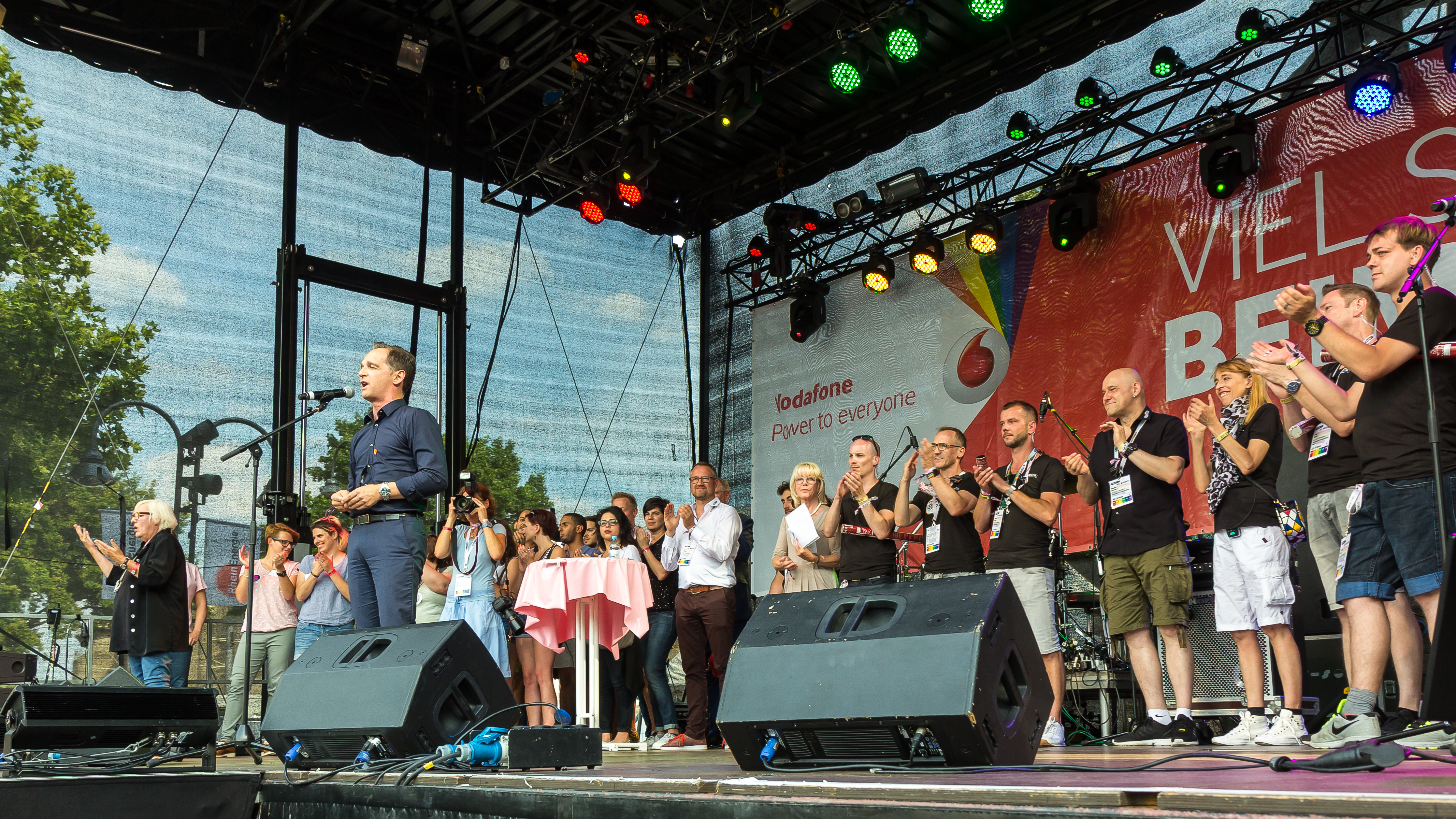 ColognePride 2017, Straßenfest - Eröffnung auf der Heumarkt-Bühne Foto: Heiko Maas, Bundesminister der Justiz, spricht zur Eröffnung des ColognePride-Straßenfestes